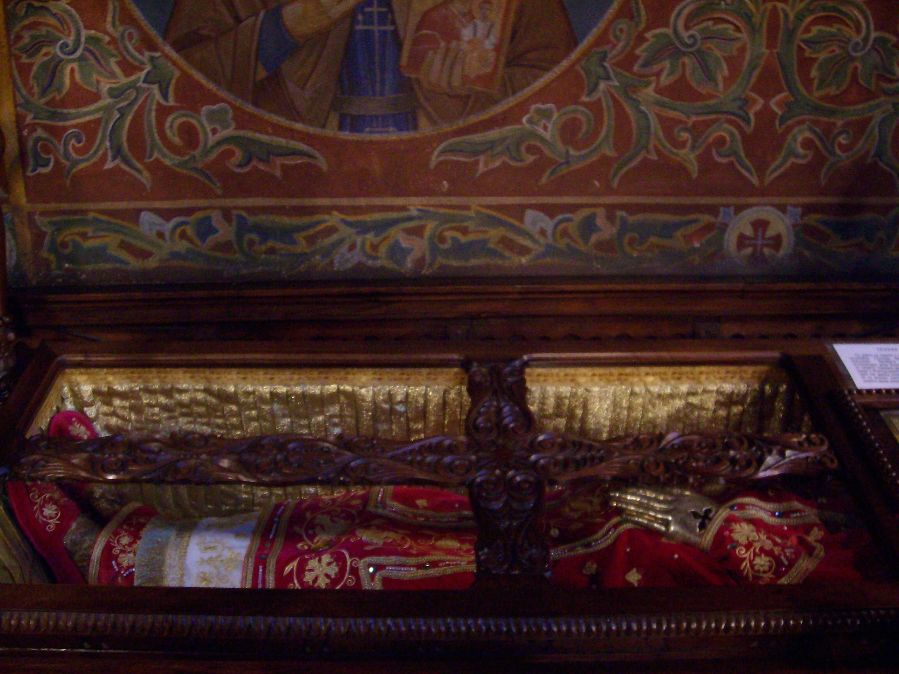 Relic Stefan Uroš II Milutin